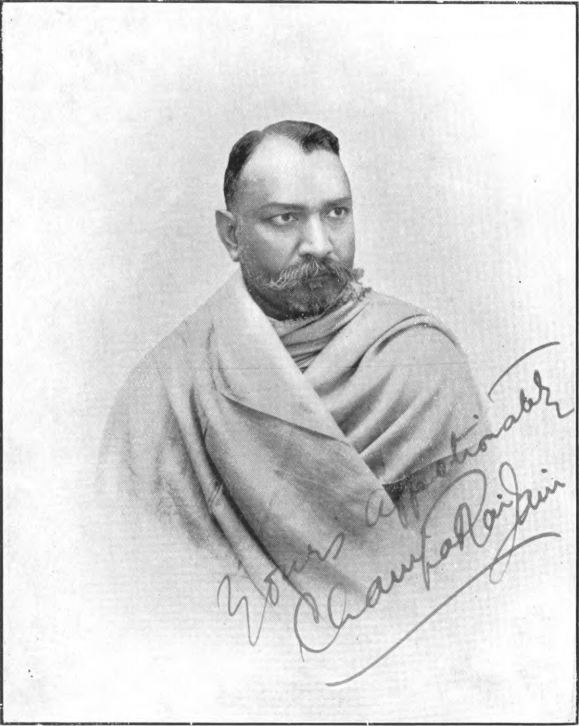 Photo of Champat Rai Jain) (Source:The Practical Path